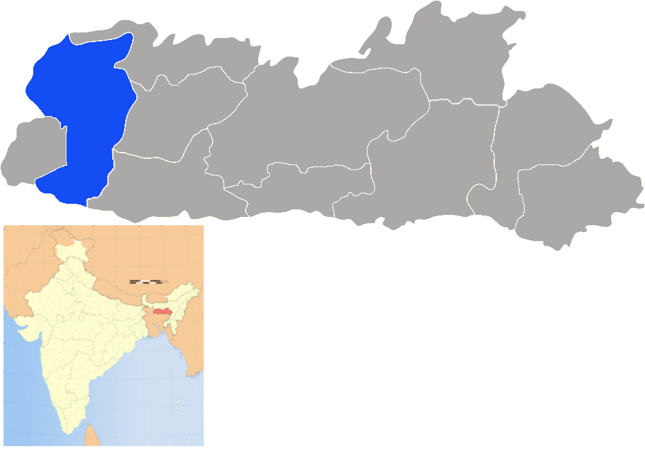 West Garo Hills district of Meghalaya